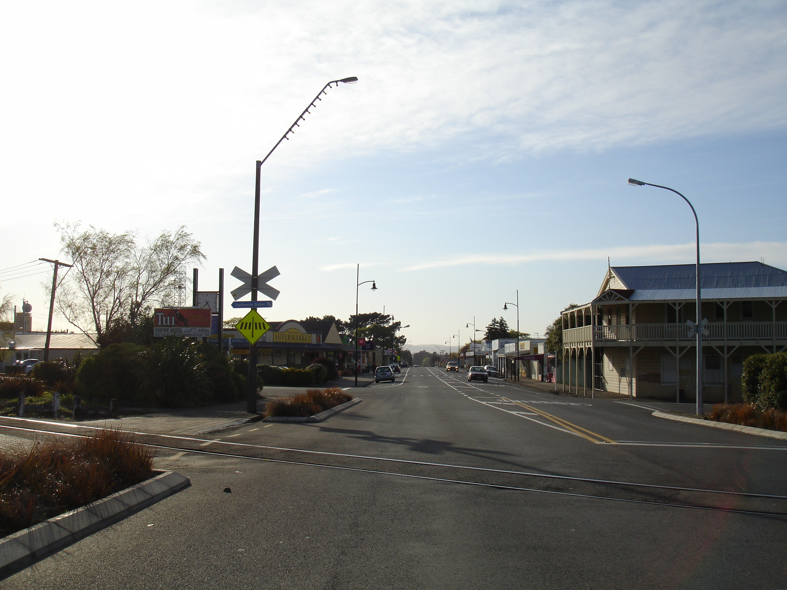 View looking east on Fitzherbert St in Featherston, New Zealand - 2007